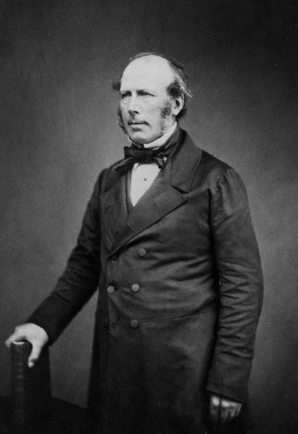 William Sharpey (1802–1880)